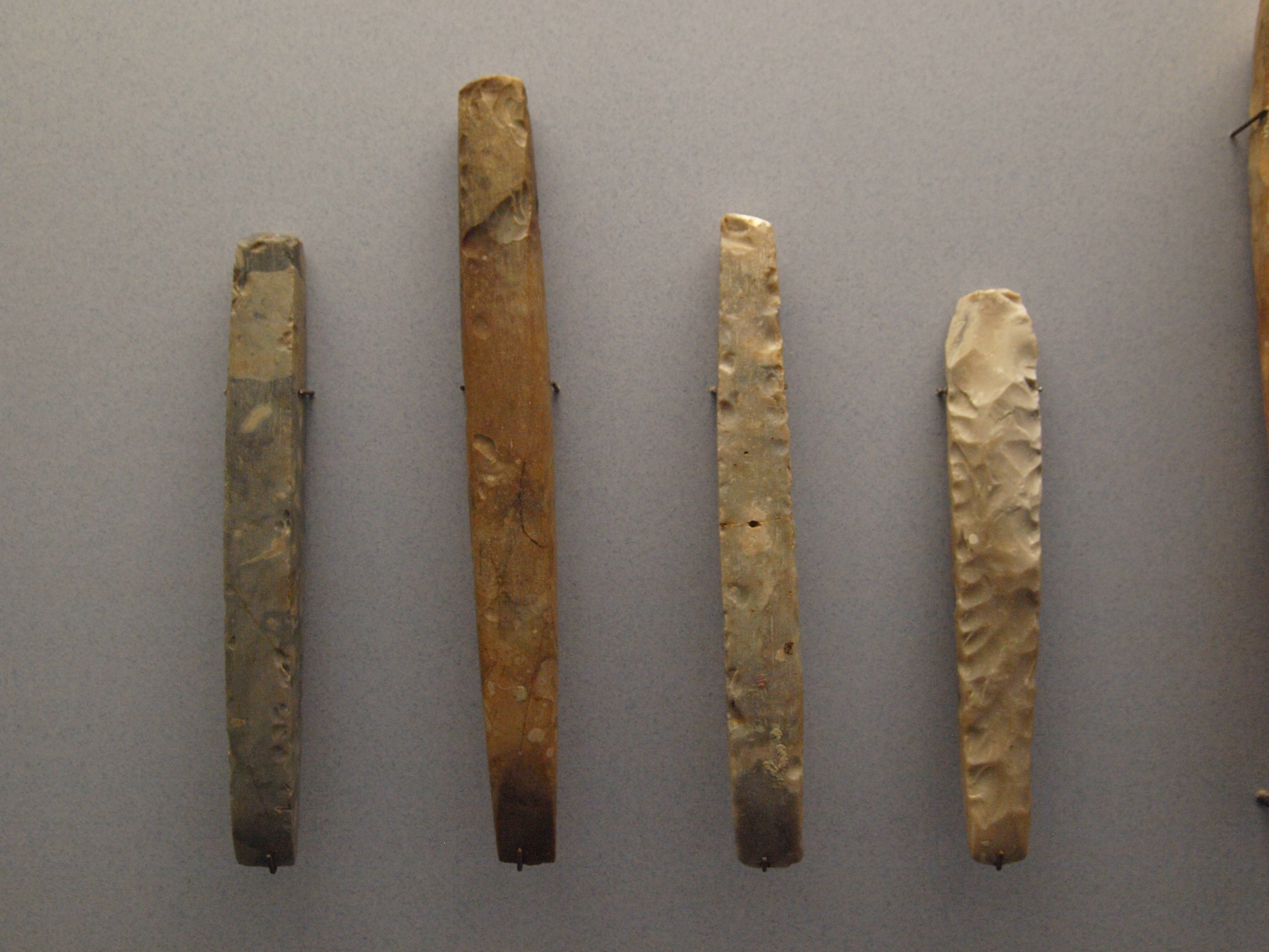 Neolithic chisels made of stone, found in Schleswig-Holstein, Germany. Dated to 4100 to 2700 BC. Photographed at Archäologisches Landesmuseum Schloss Gottorf, Schleswig, Germany.